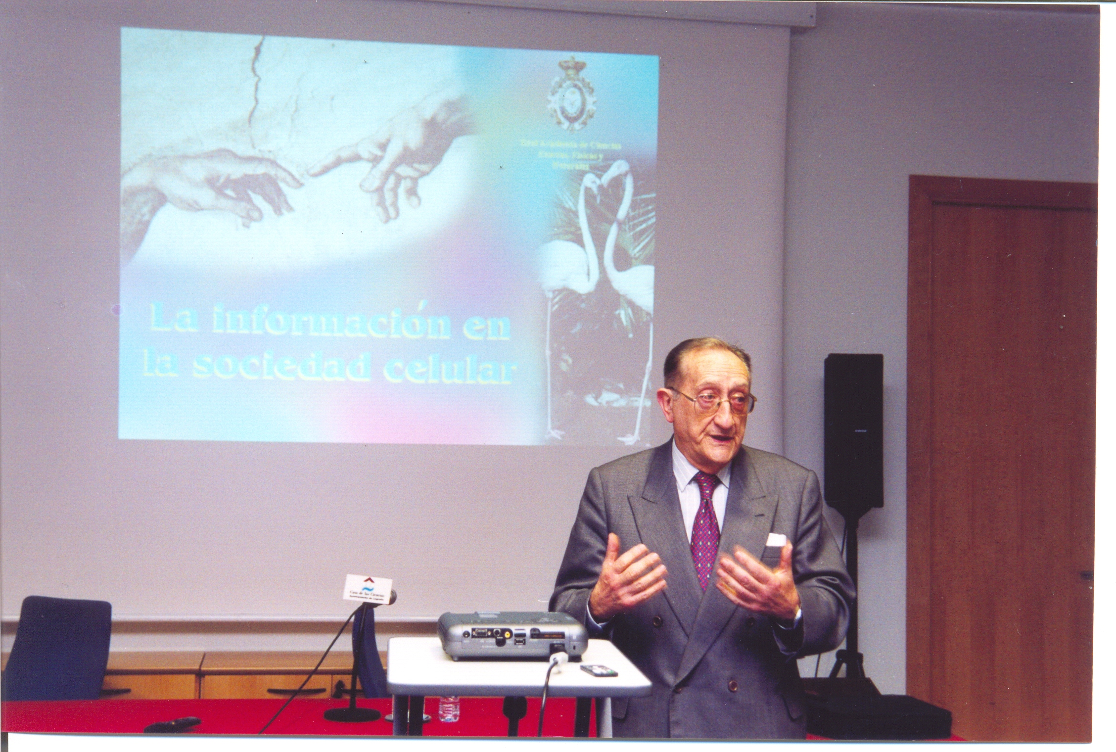 Mr. Martín Municio during its lecture "Information on cell society" at Casa de las Ciencias of Logroño.